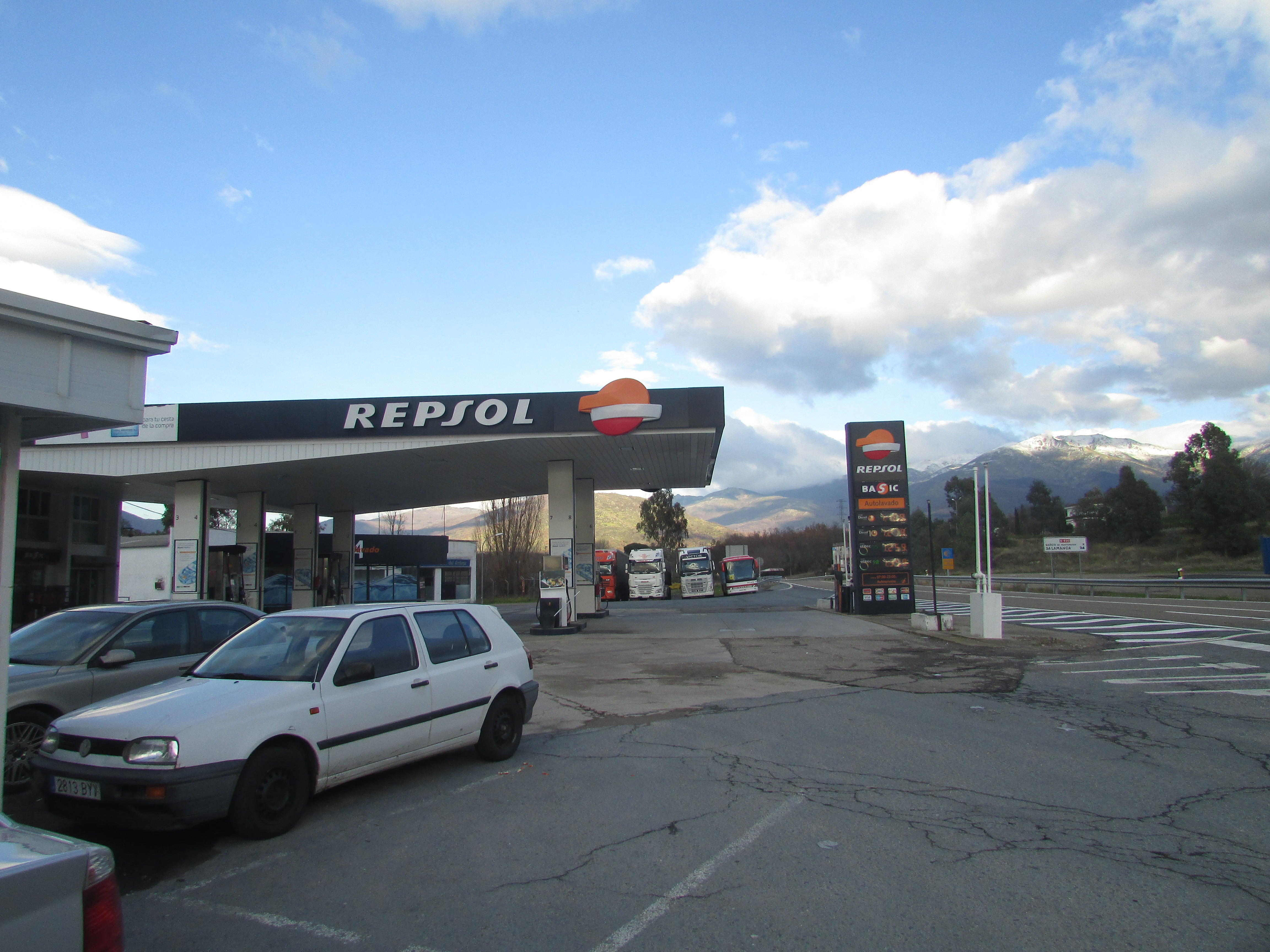 A service station and rest area near the town of Hervás, Extremadura, Spain.